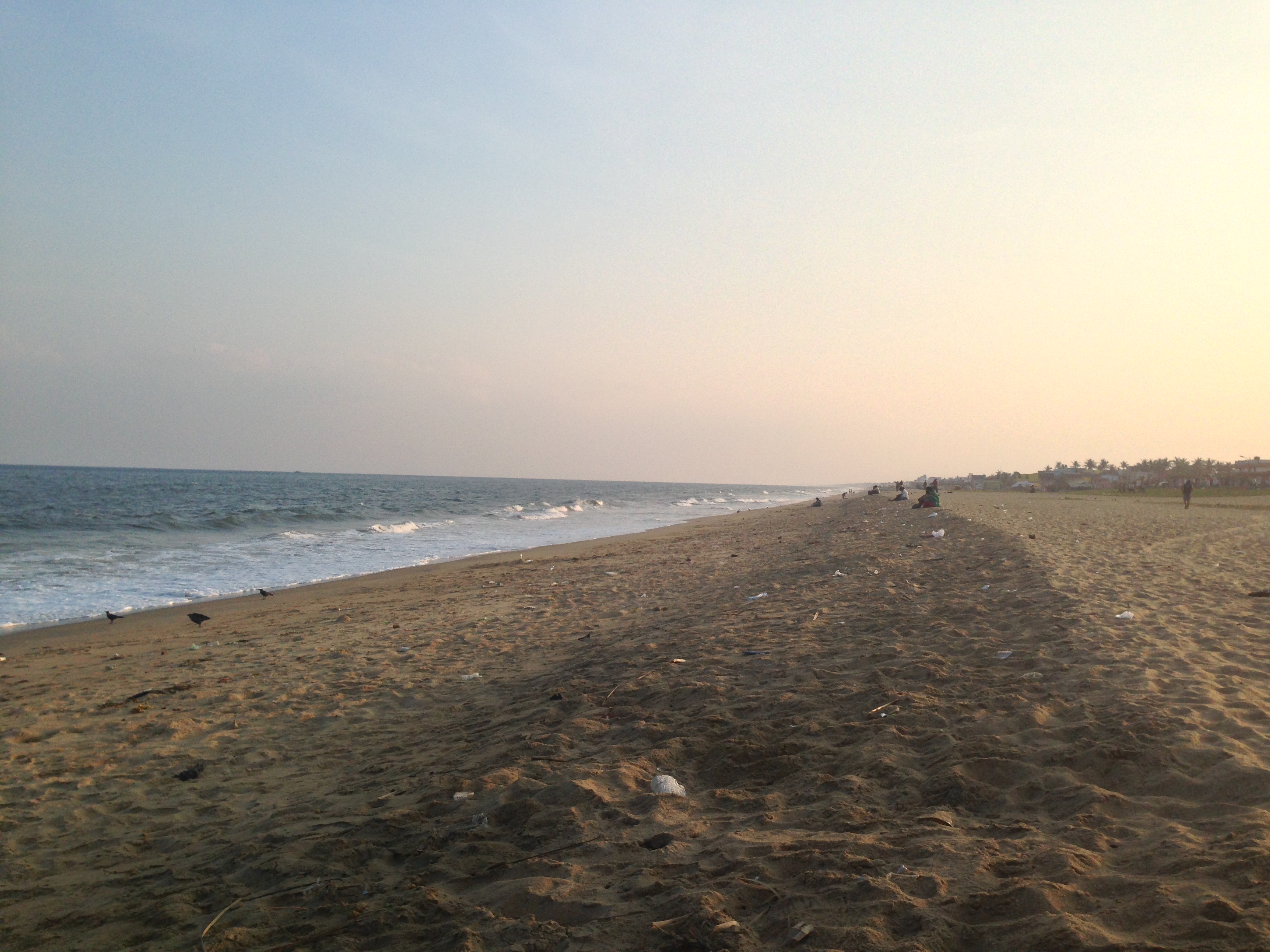 Der Strand in Thiruvanmiyur, Chennai, Tamil Nadu